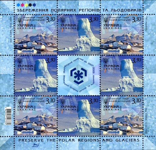 Stamp of Ukraine